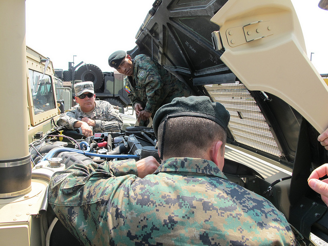 Army Chief Warrant Officer 3 Craig Evans, supervisory equipment specialist with the Kentucky National Guard, goes through the maintenance inspection process of a high mobility multipurpose wheeled vehicle with the members of the Ecuadorian military at a visit on Boone National Guard Center in Frankfort, Ky.